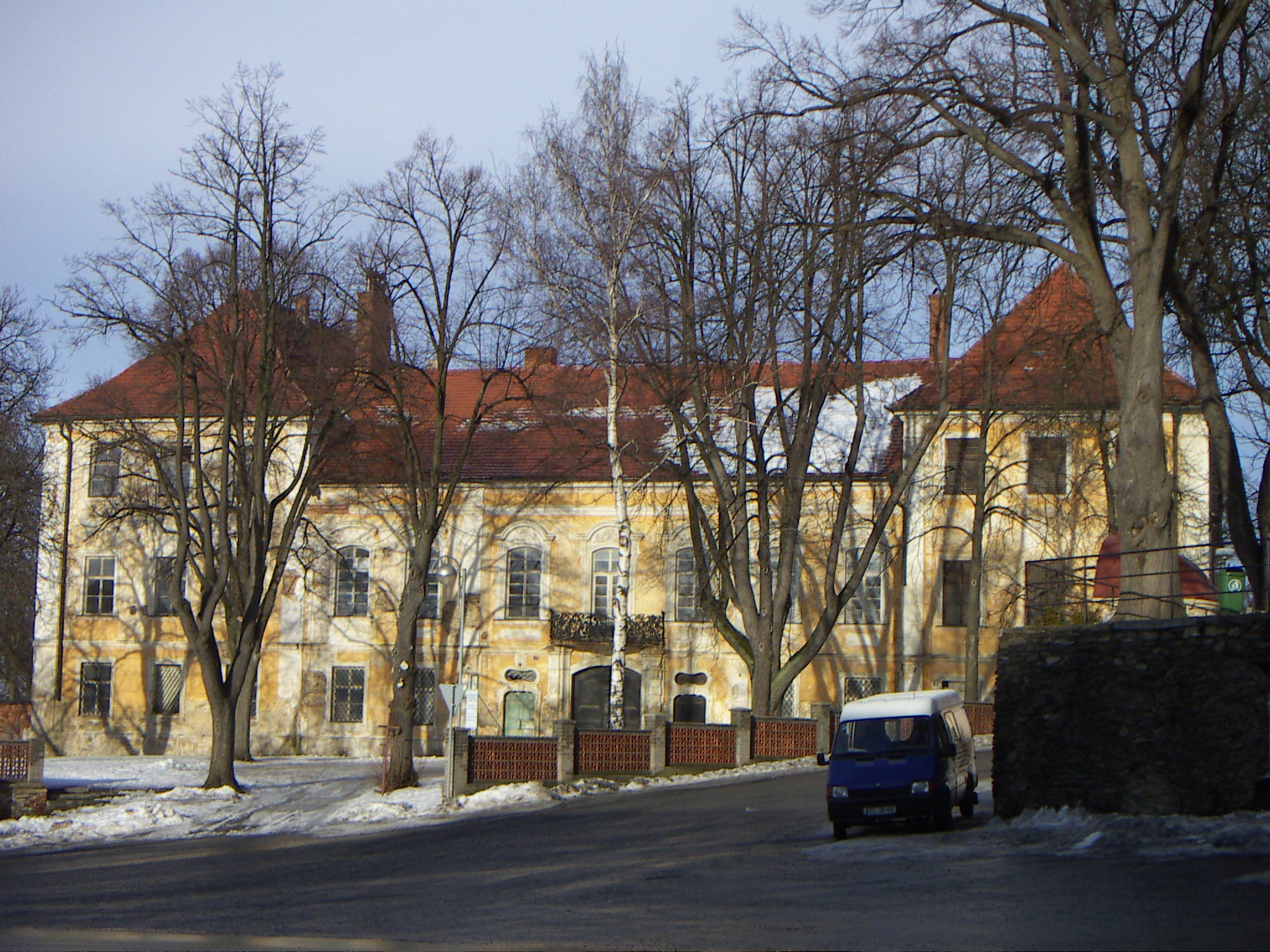 Chateau in Mladá Vožice, Czech Republic